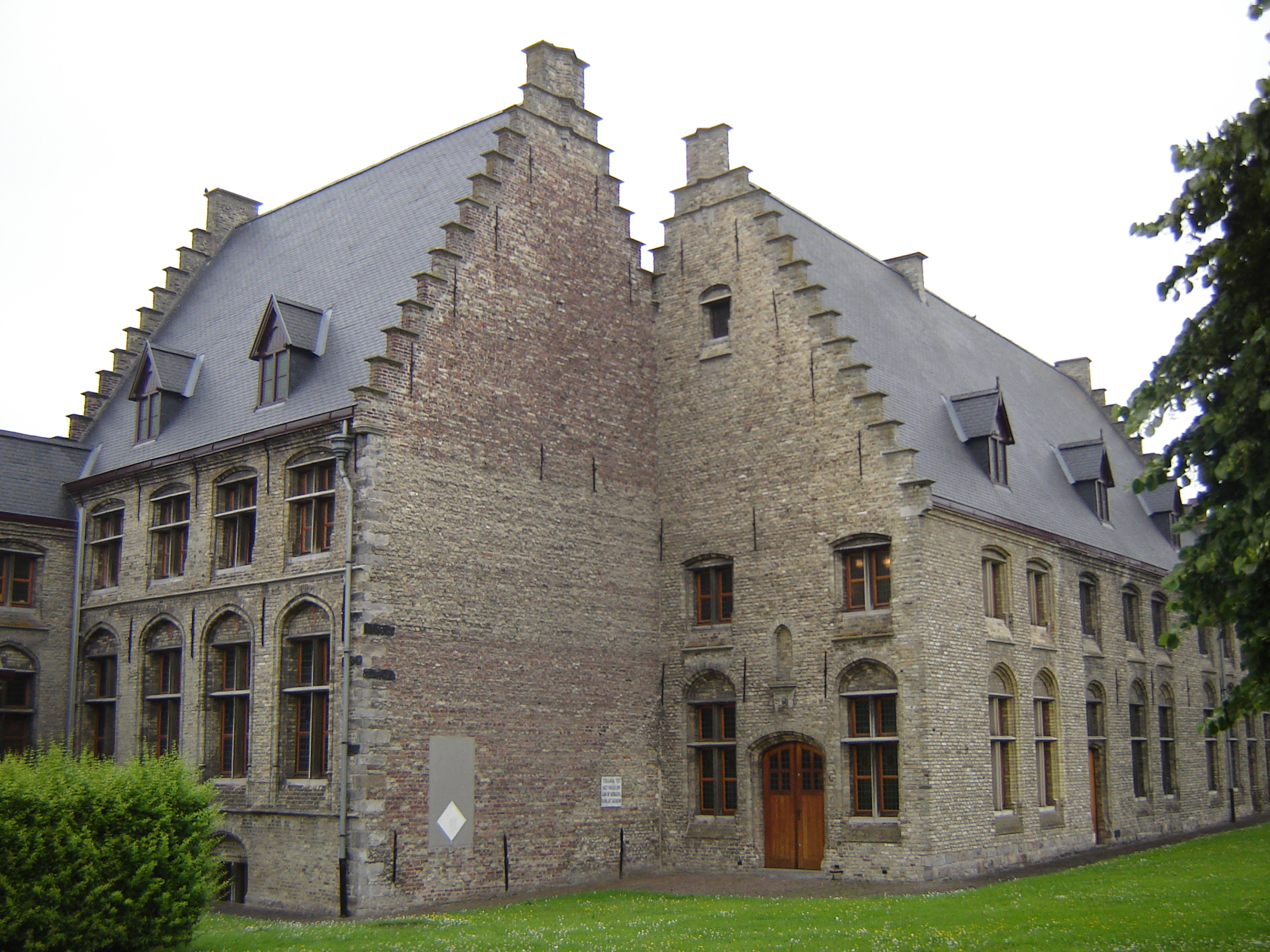 Sint-Jansgodshuis in Ieper, West Flanders, Belgium